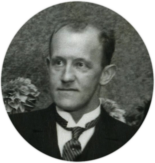 Dr. Gerhardus Knuttel Wzn (1889-1968), Dutch museum curator, museum director, art educator, publicist and art critic. Because of its anti-German attitude, he was confined in the hostage camp of Sint Michielsgestel. (From May 4, 1942 to May 7, 1945)